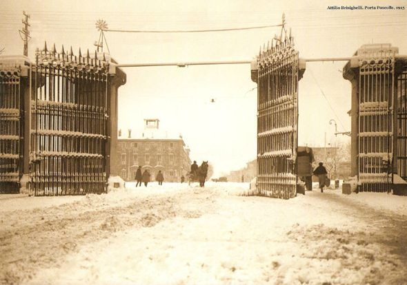 Porta Poscolle o Porta Venezia